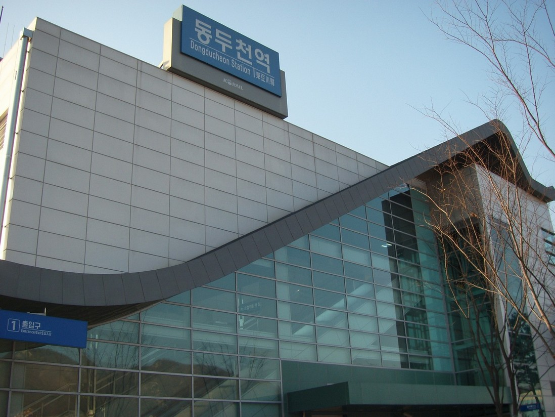 Dongducheon Station